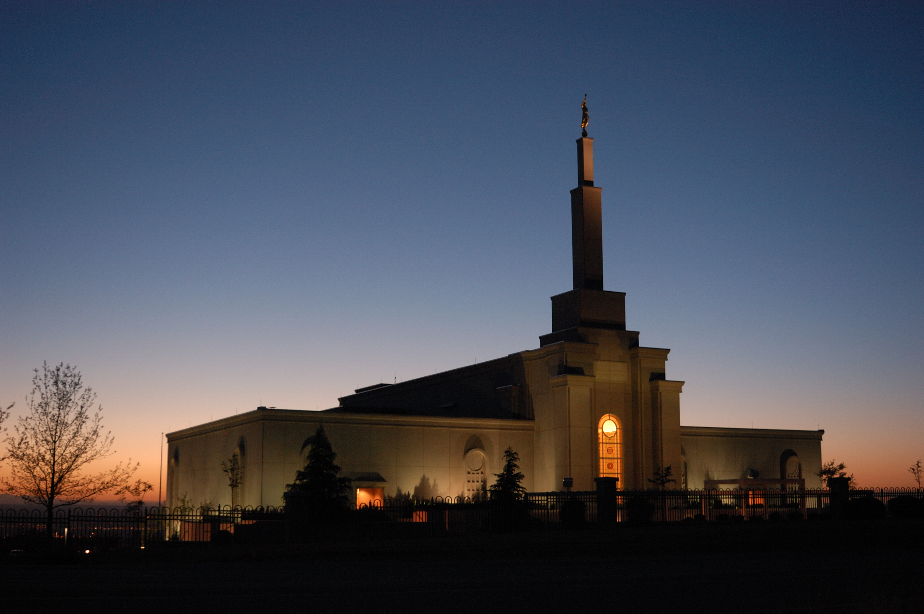 Additional details about the temple can be found here